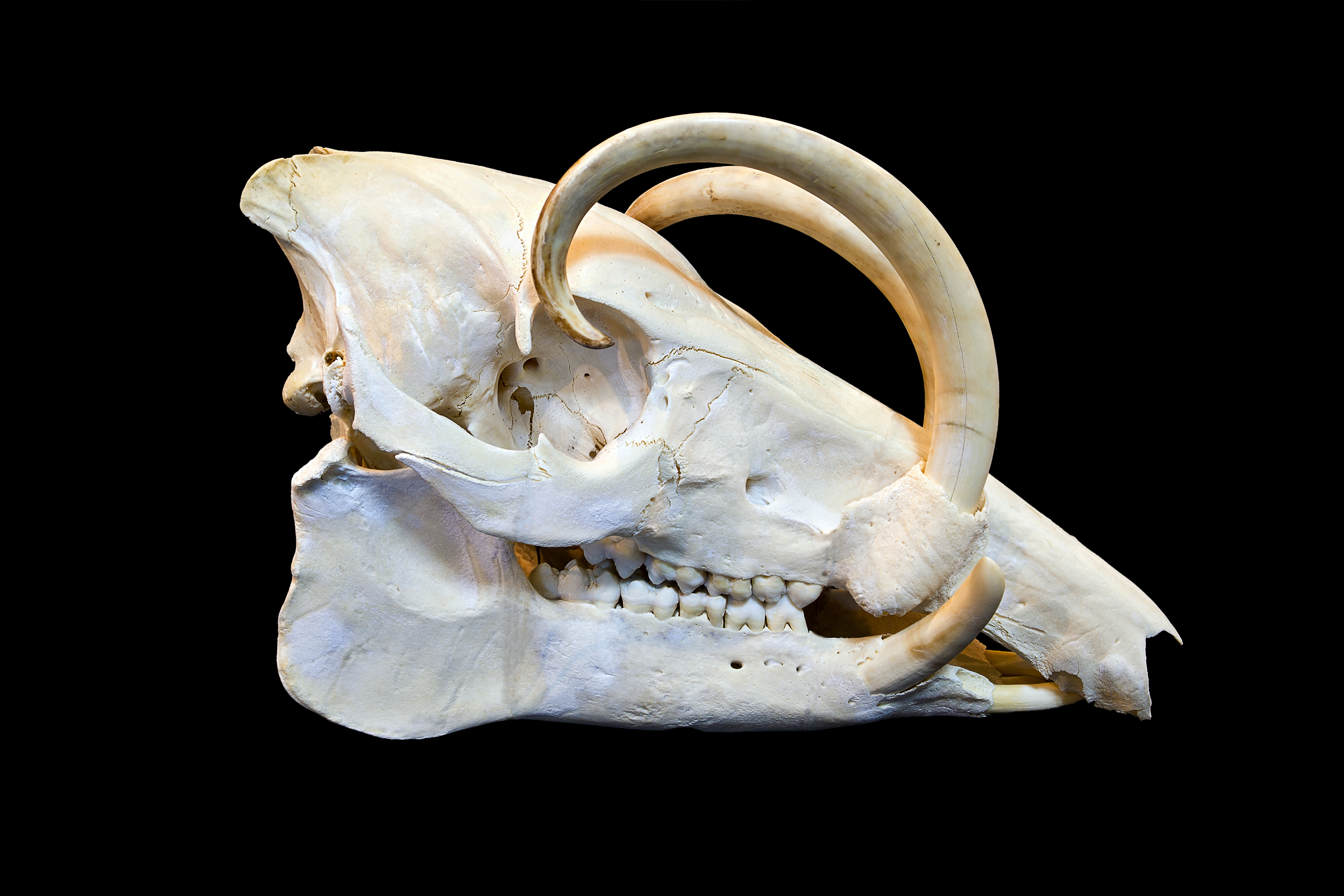 Skull of a male North Sulawesi babirusa (Babyrousa celebensis). Size: 37 cm.